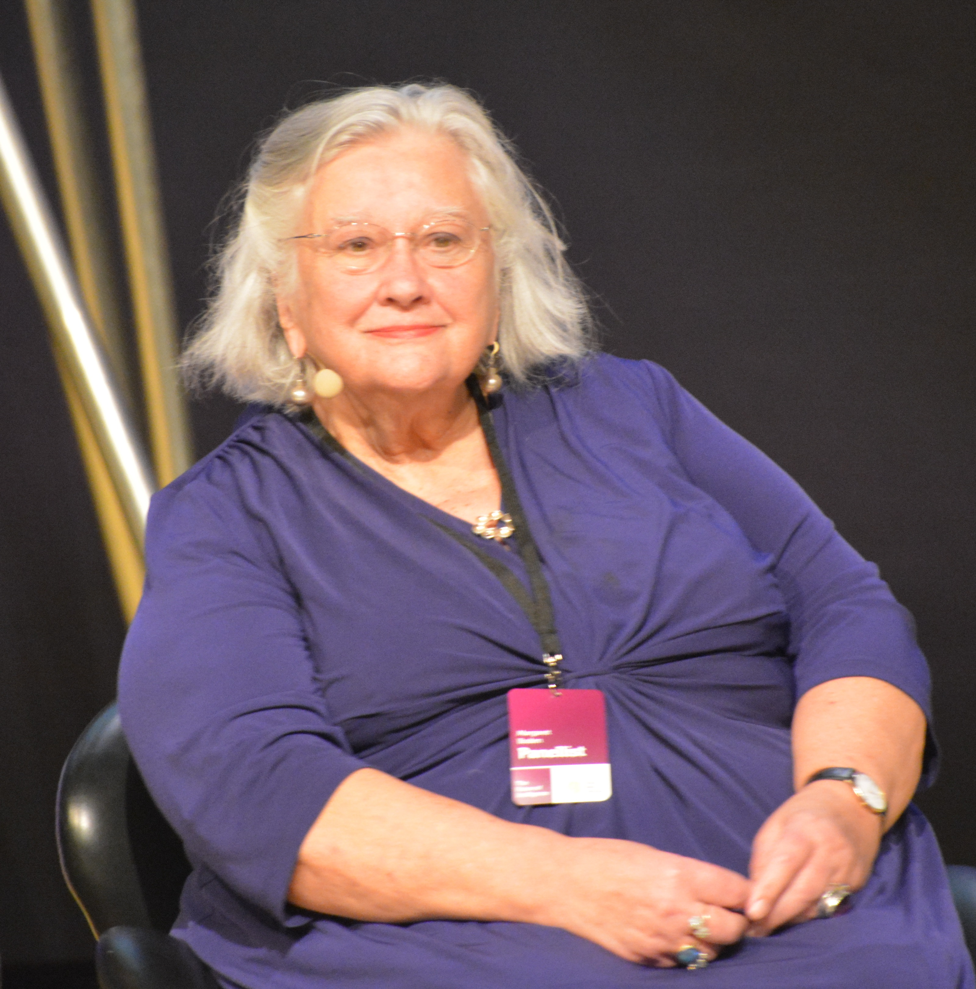 Margaret Boden at Nobel Week Dialogue, 2015